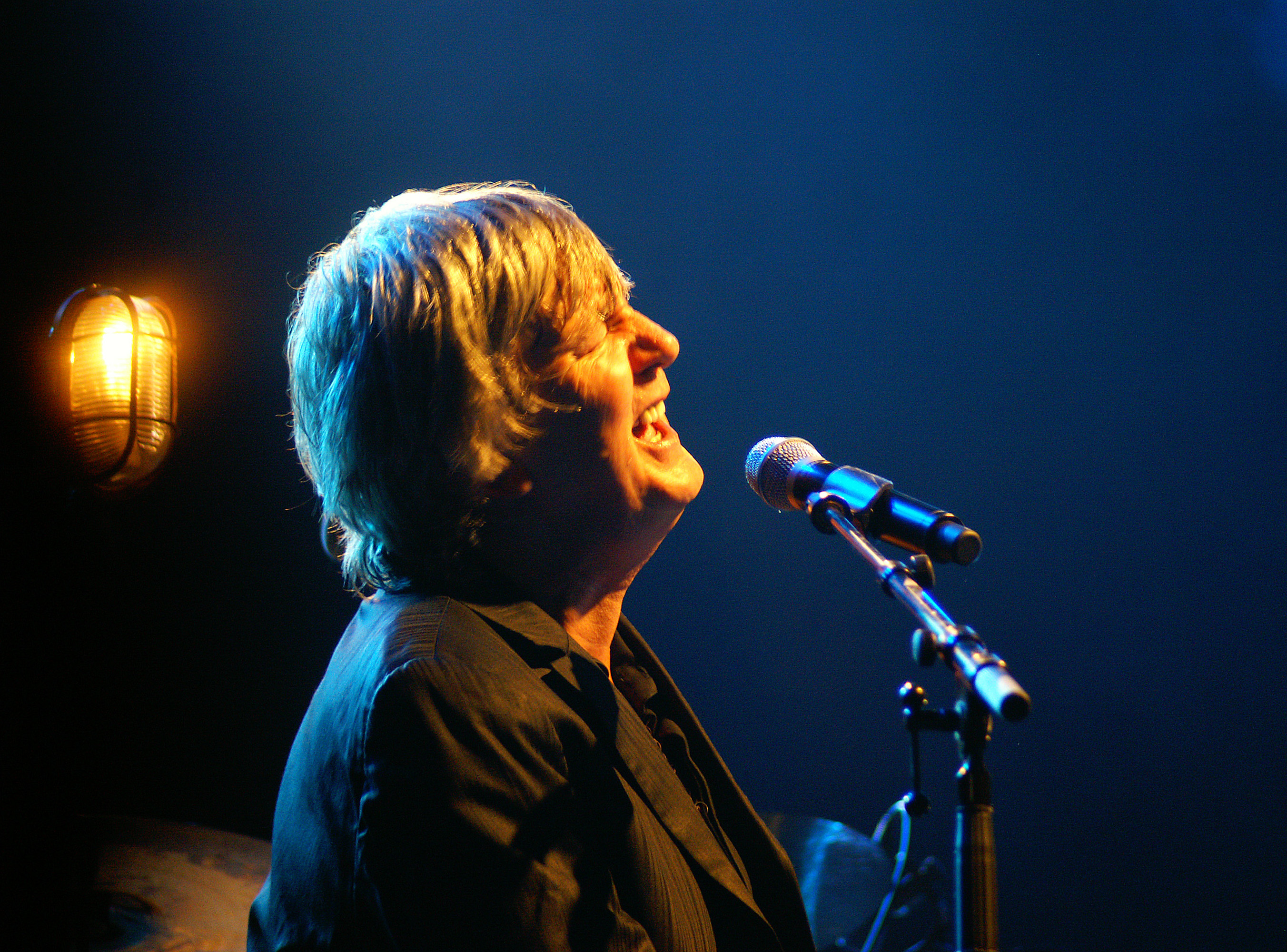 Jacques Higelin live at Aux Zarbs festival (Auxerre, France).